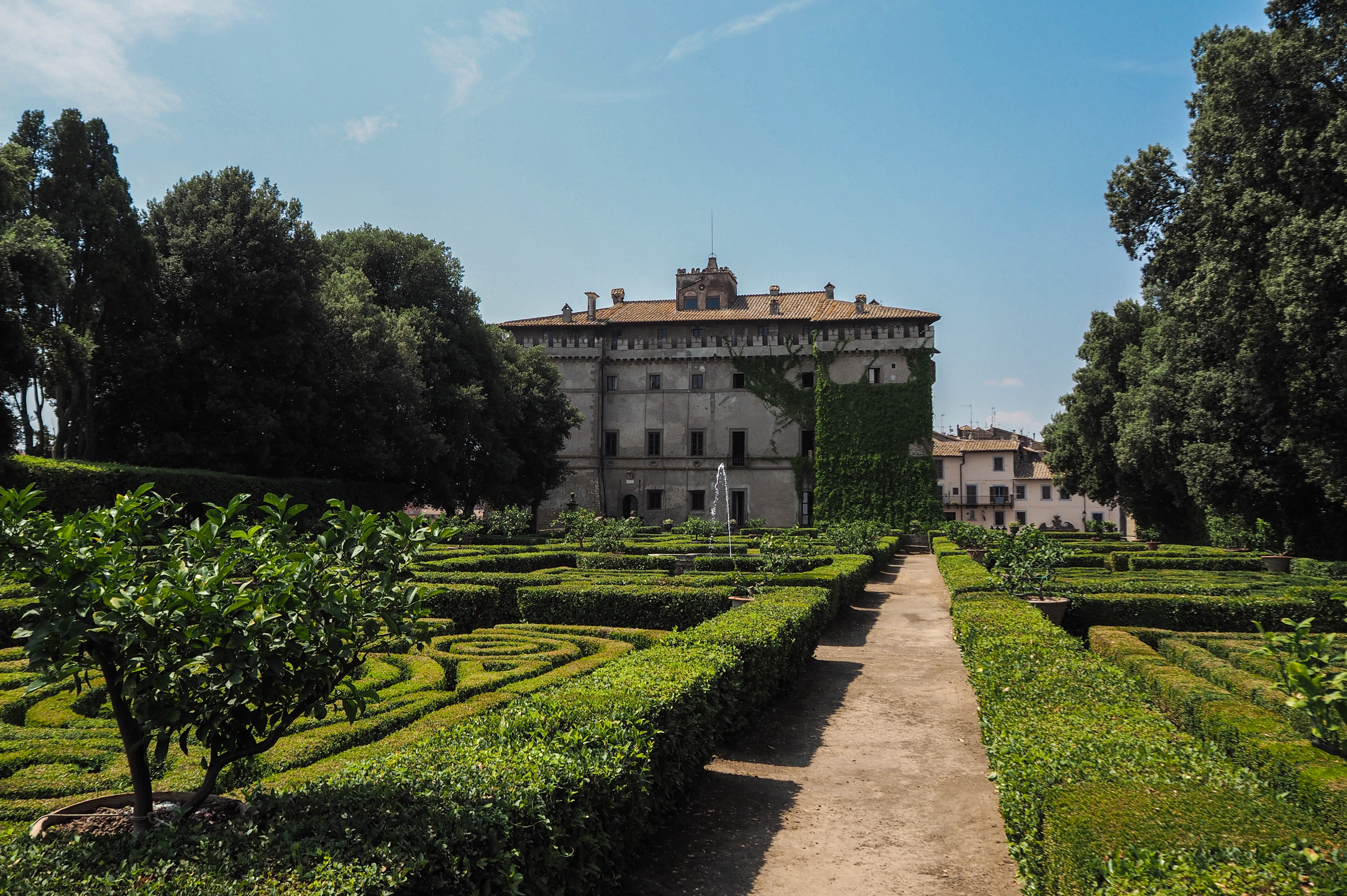 Image of Castello Ruspoli in Vignanello, Italy